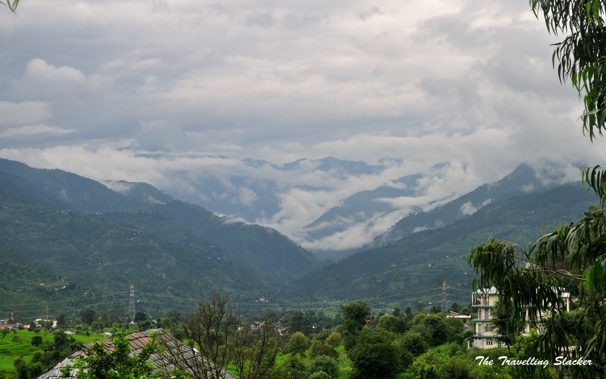 Nature, Scenery, Forests, Agriculture Between Shimla and Mandi Himachal Pradesh India